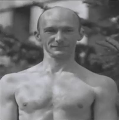 Black and white portrait, bust, of Gaston Durville shirtless.